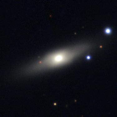 PanSTARRS image of NGC 714.